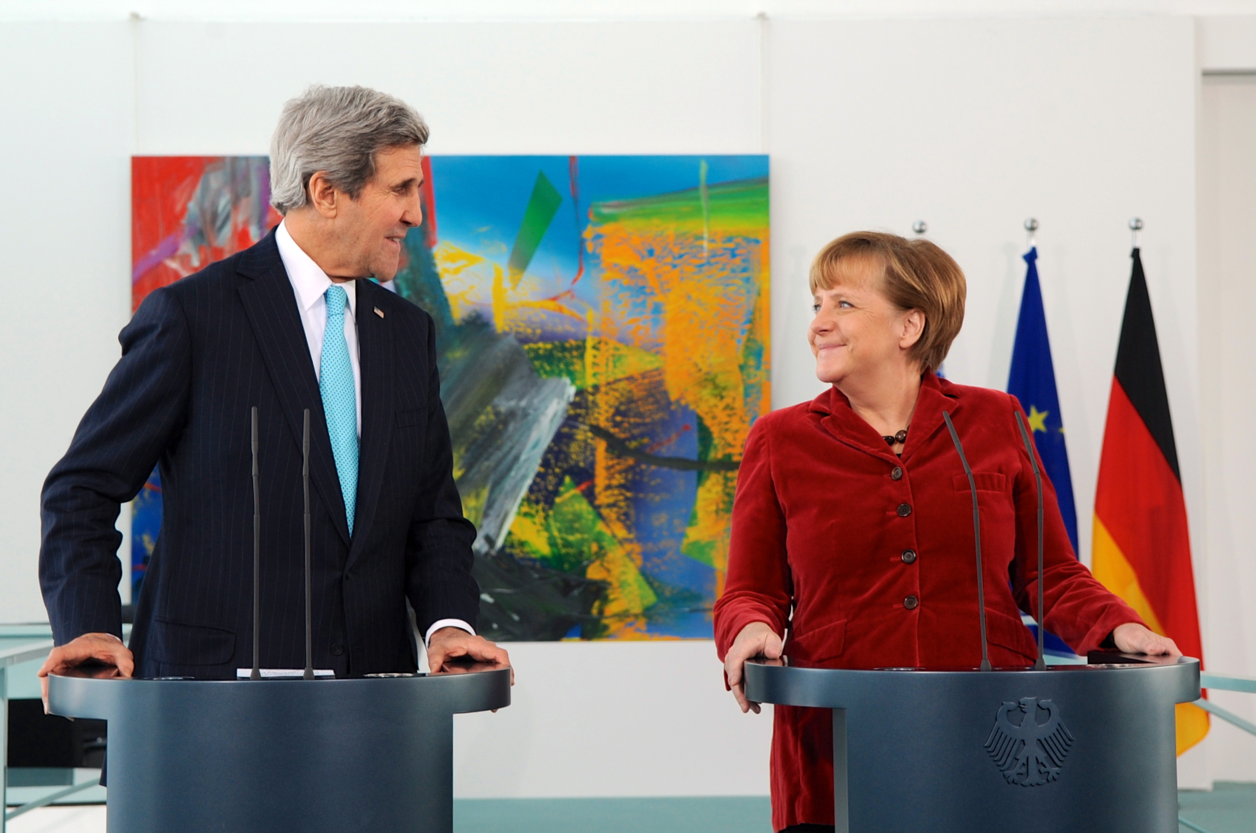 U.S. Secretary of State John Kerry and German Chancellor Angela Merkel smile at each other while making a pair of statements to reporters at the Chancellery in Berlin, Germany, on January 31, 2014. [State Department photo/ Public Domain]